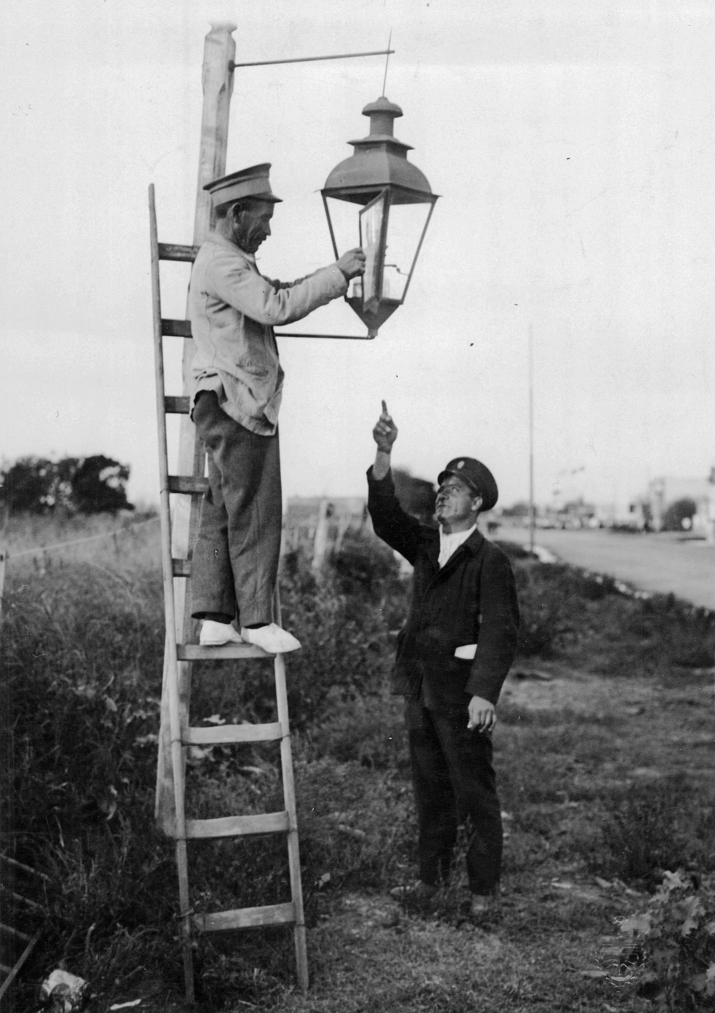 The last kerosene street light in Buenos Aires in 1931. They would be replaced by electric lights.